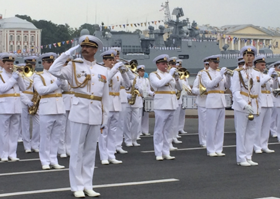 A combined rehearsal of the Main Naval Parade took place in St. Petersburg and Kronstadt and was led by Admiral Vladimir Korolyov, the Commander-in-Chief of the Russian Navy. The event was the first within the whole Parade preparation, when the sea, air and land components jointly train # during one day in a single scenario.